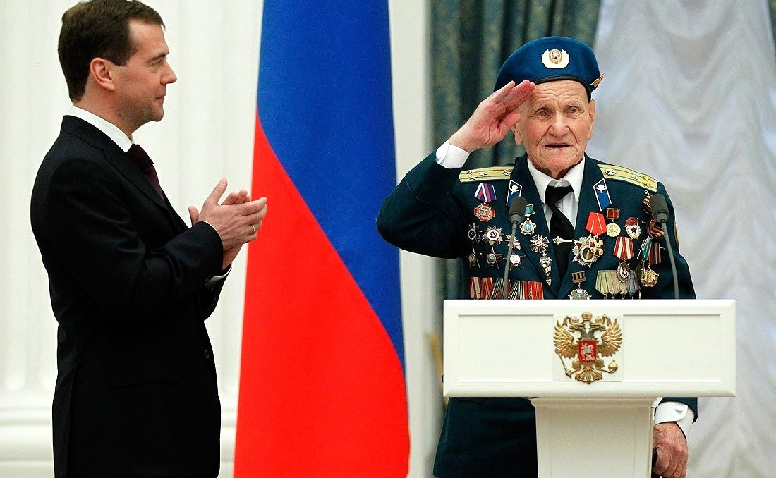 Dmitry Medvedev and Alexey Sokolov. Moscow, Kremlin. 21 feb 2011.